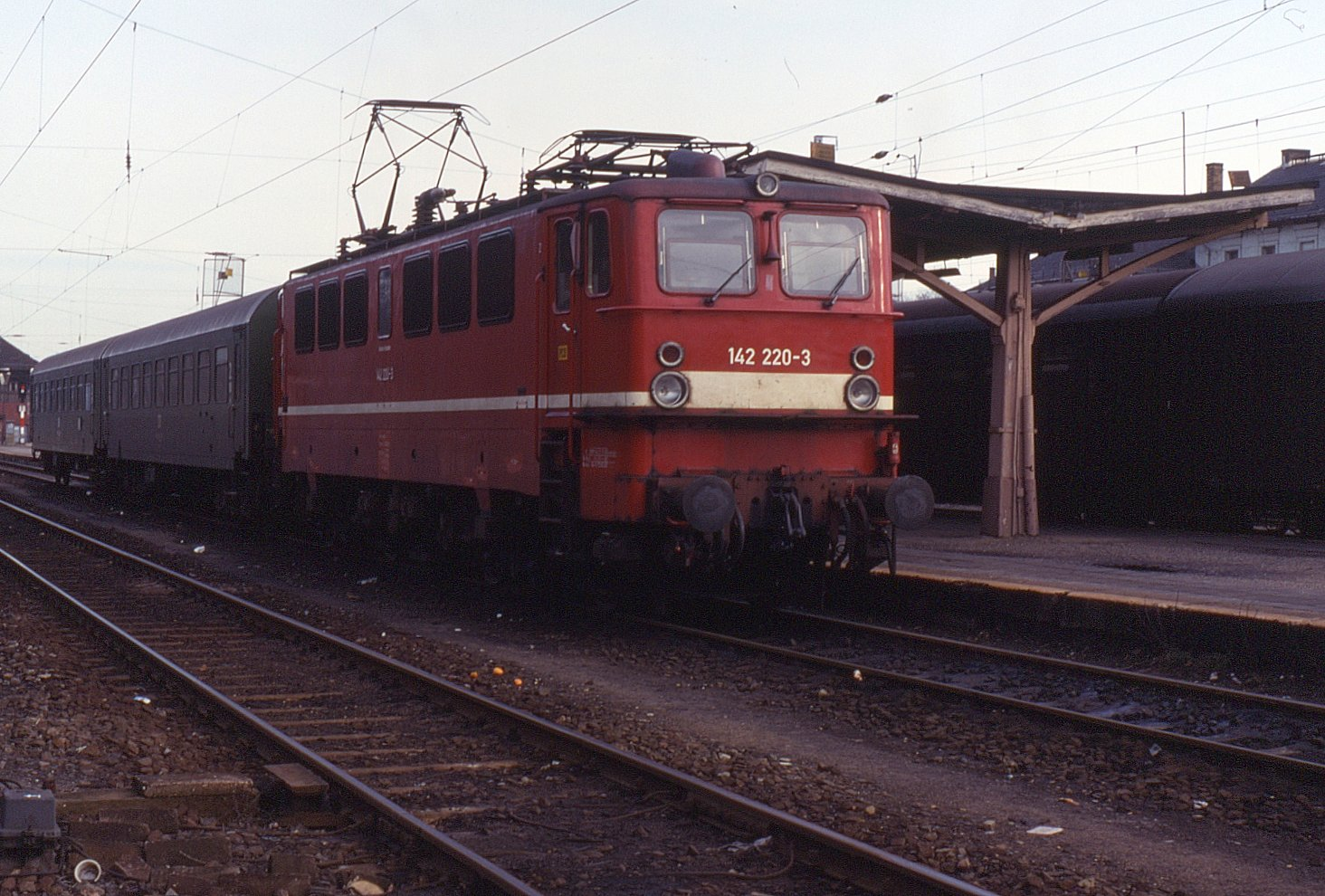 Originally DR class 242, these were originally introduced for freight workings but found their way onto passenger trains too. On 13 January 1993, 142.220 is seen at Jüterbog heading train 5311, 12:01 Jüterbog to Riesa.